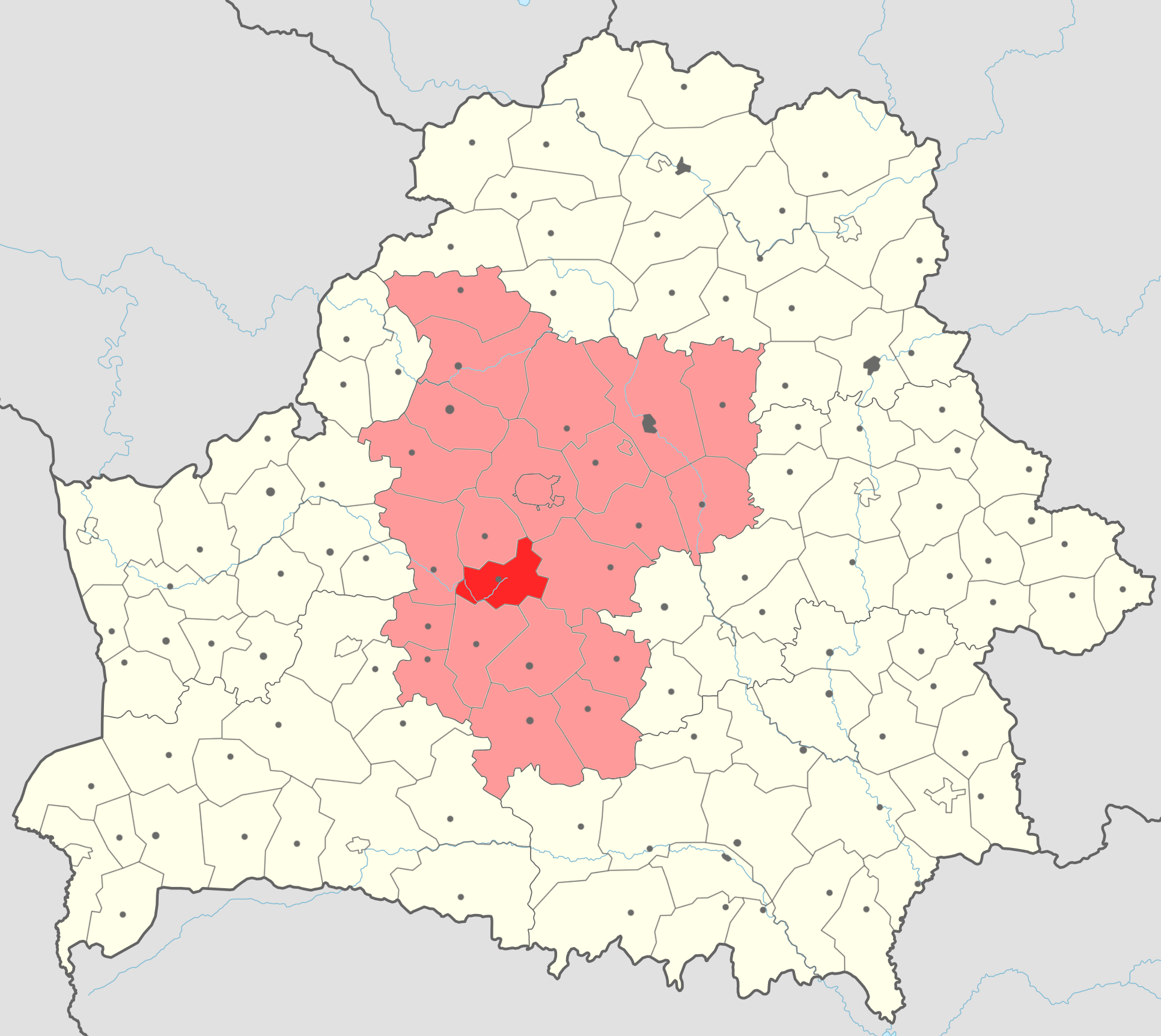 Map of Uzda rayon (in red) with Minsk voblast' (in light red) on the map of Belarus.